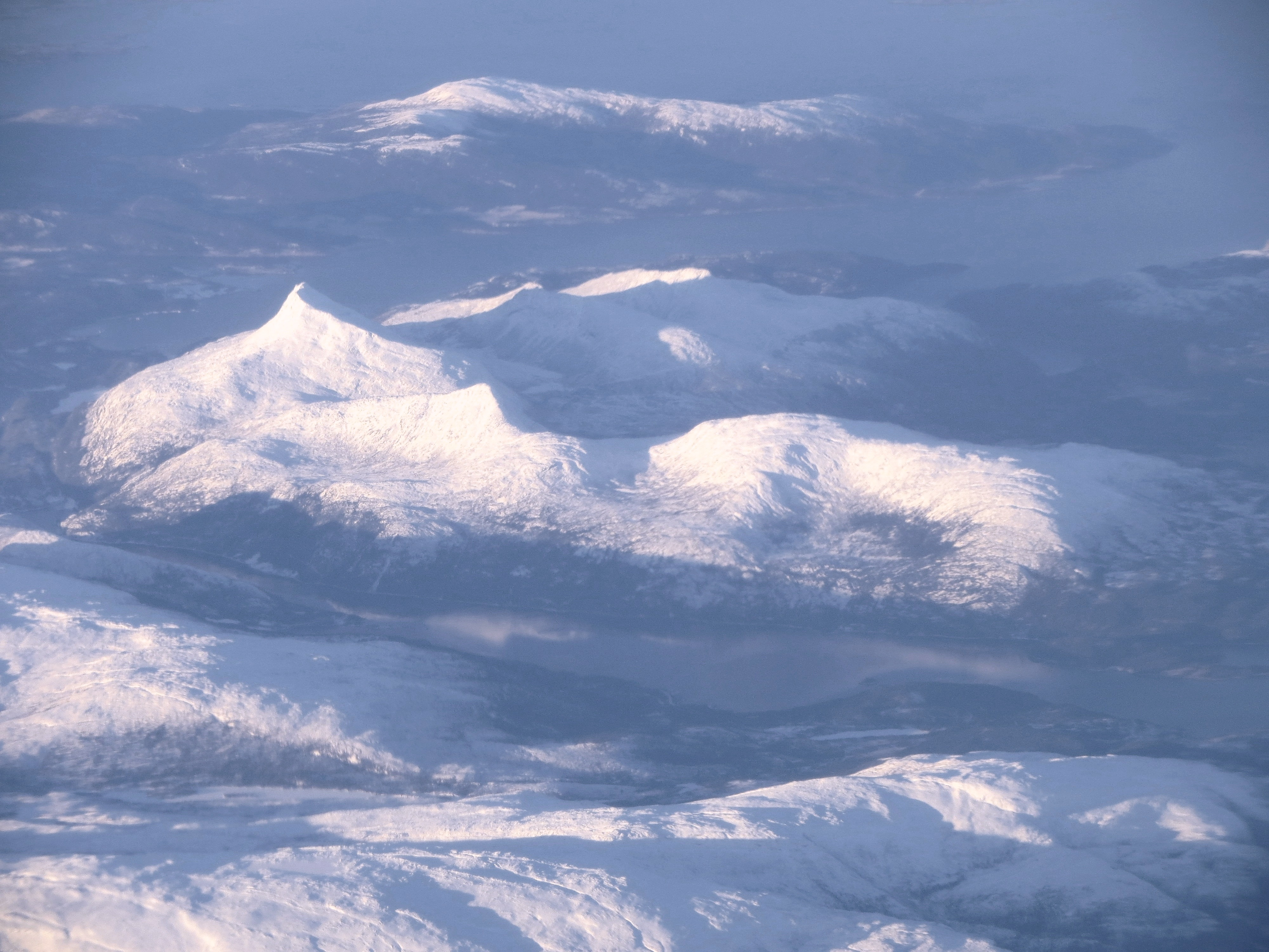 Aerial view from the east towards west, of Bindal municipality in Nordland county, Norway.